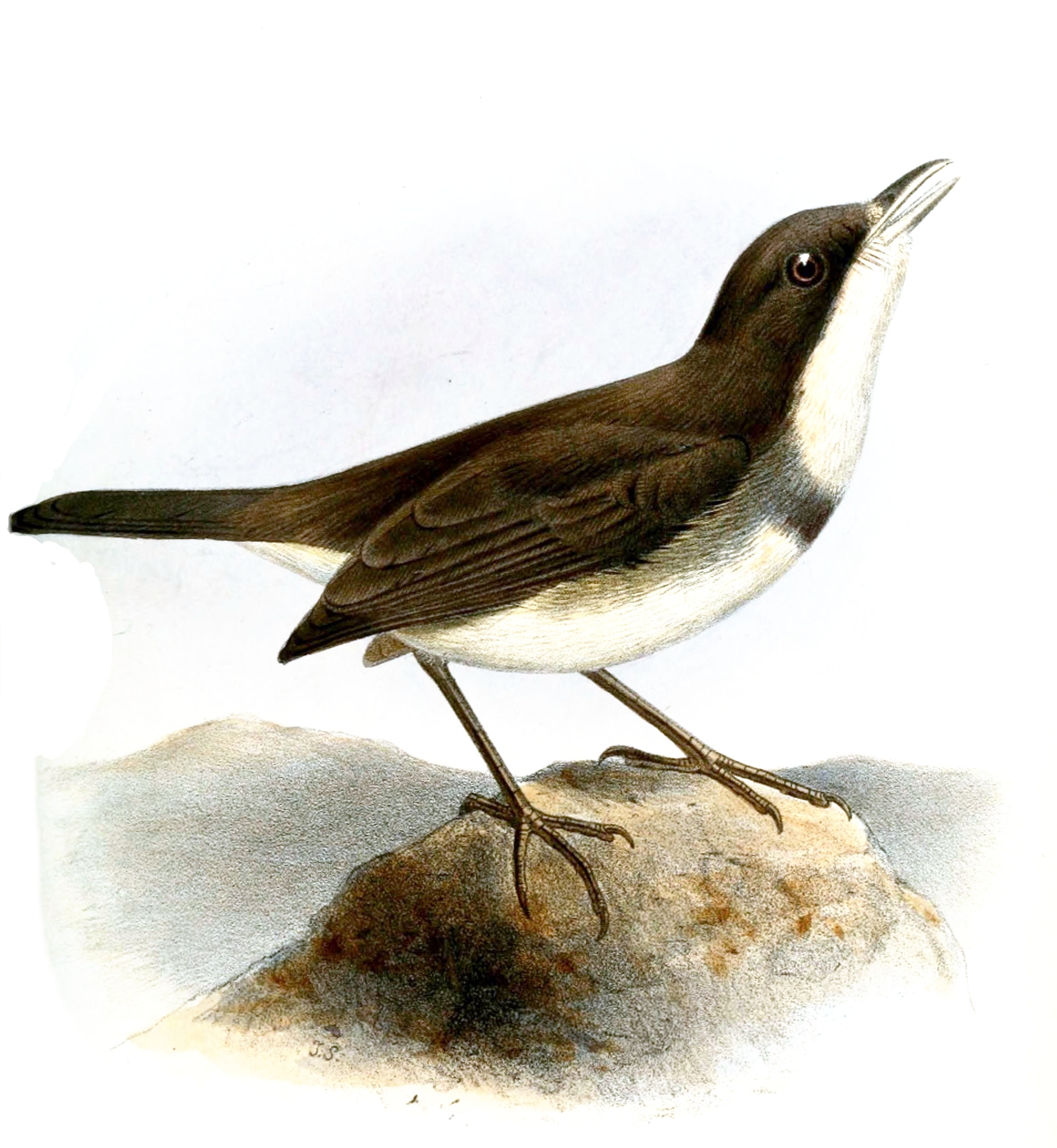 Principe Flycatcher-babbler, adult